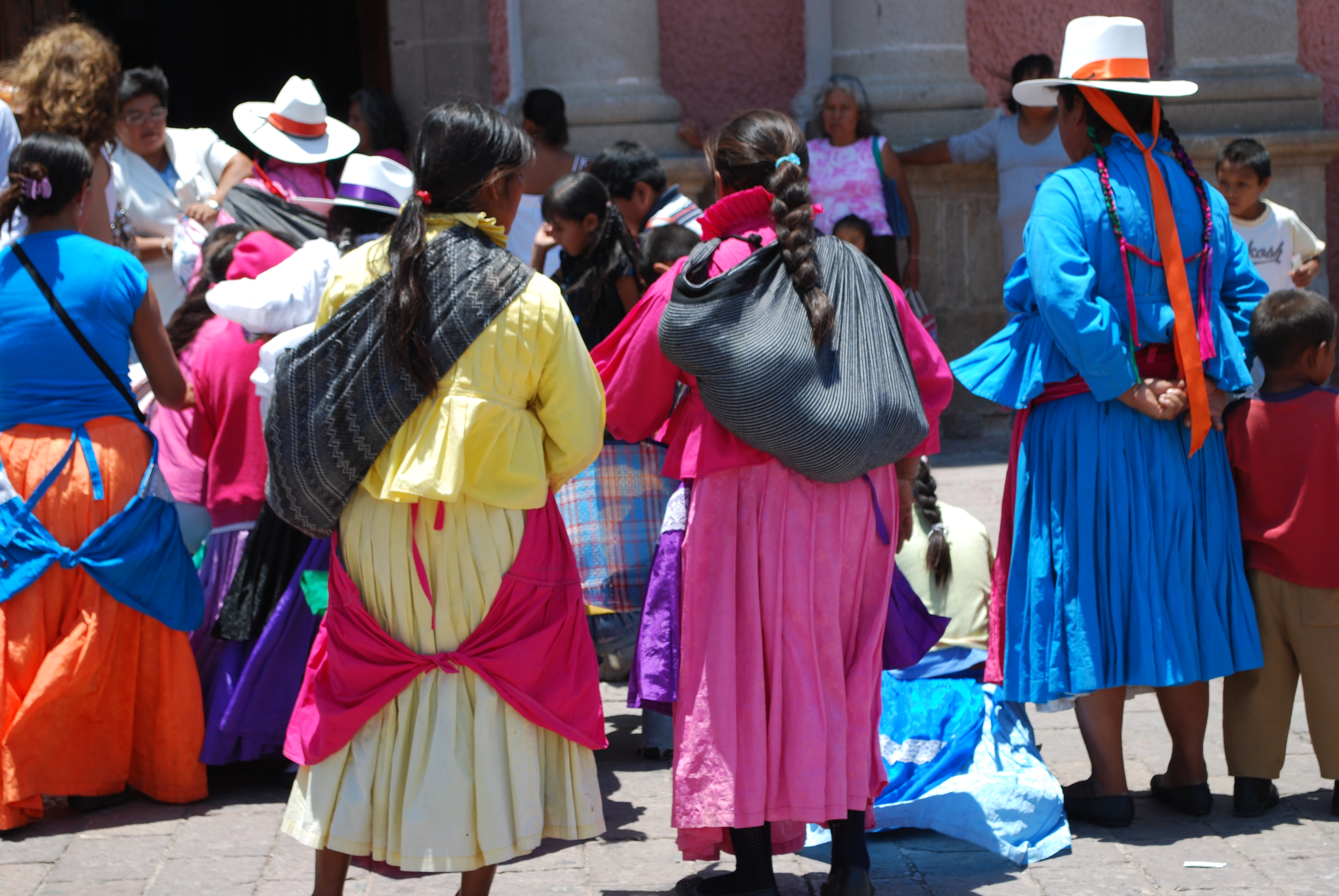 Otomi women in front of the Santa Maria Church in Tequisquiapan, Queretaro, Mexico